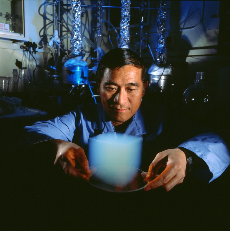 Aerogel cube & Peter Tsou, JPL Scientist, Stardust Deputy Principal Investigator.